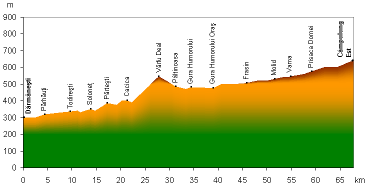 Elevation profile o the railway track Darmanesti-Campulung Moldovenesc